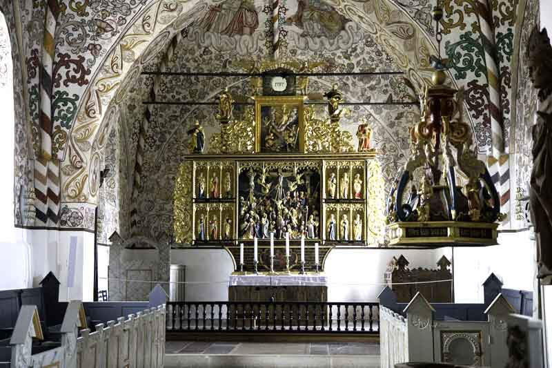 Altarpice in Møgeltønder Kirke, a church in the southern part of Denmark